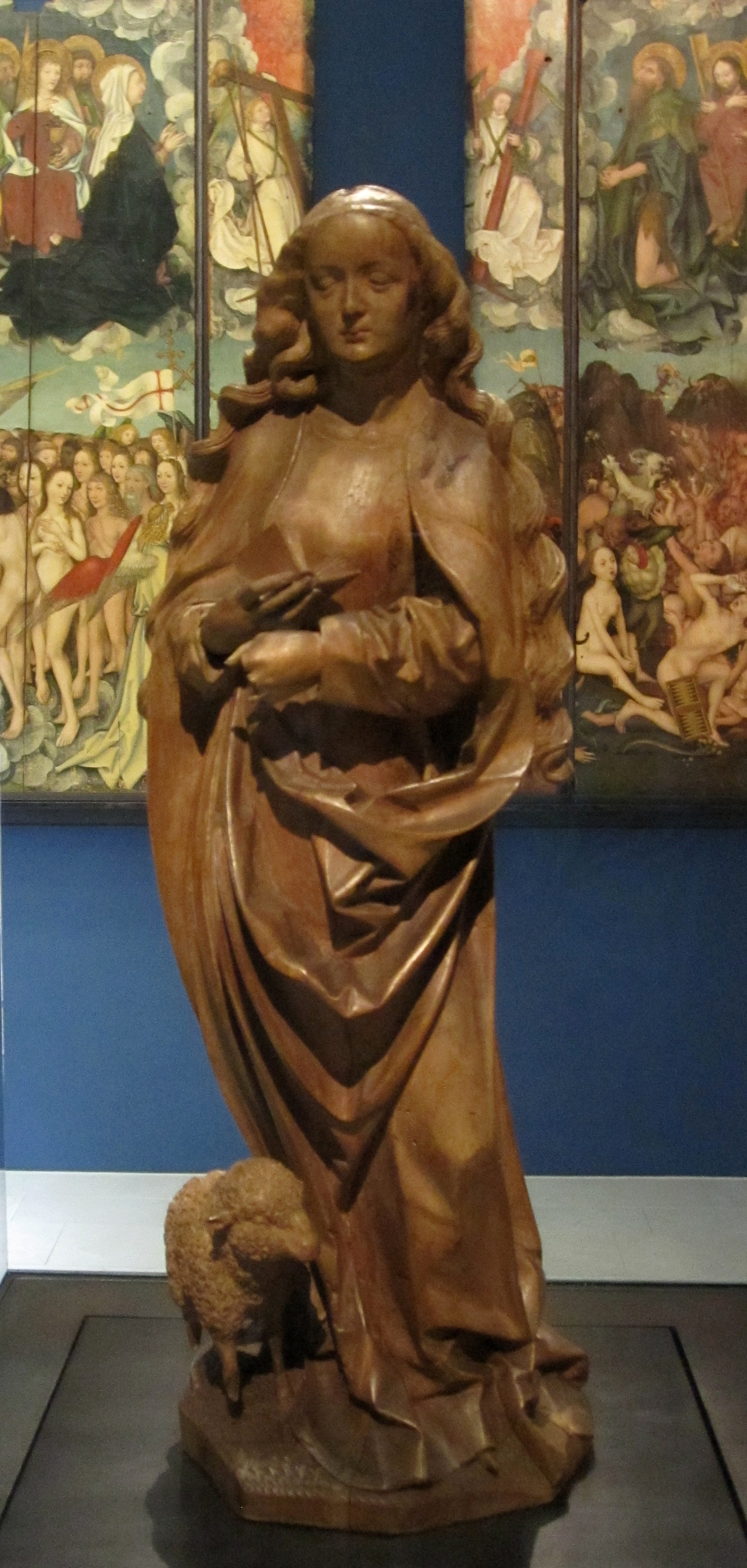 Hl. Agnes - Hans Wydyz ca. 1500 1510